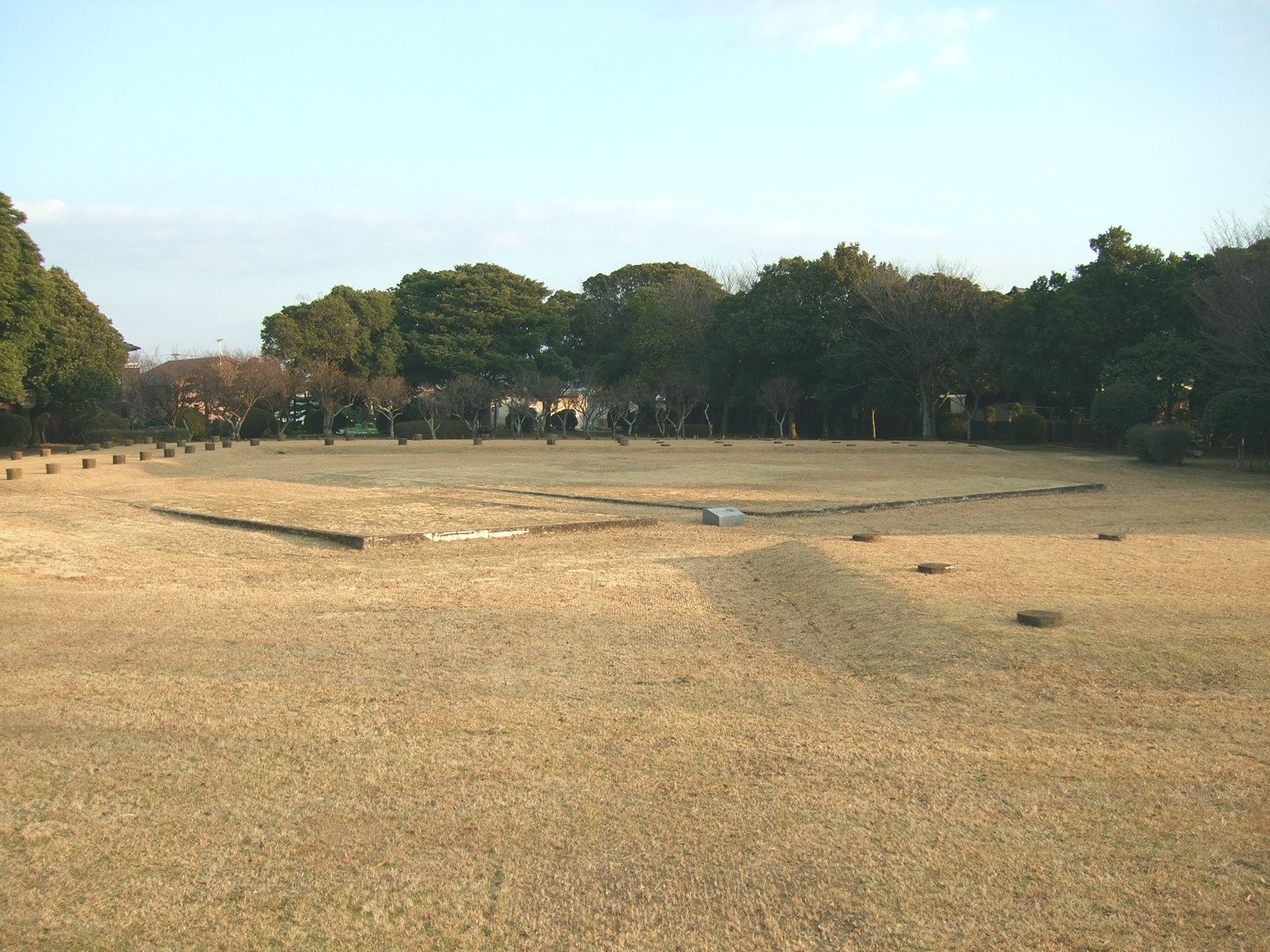 Ogori Kanga Ruins, Ogori City, Fukuoka, Japan.